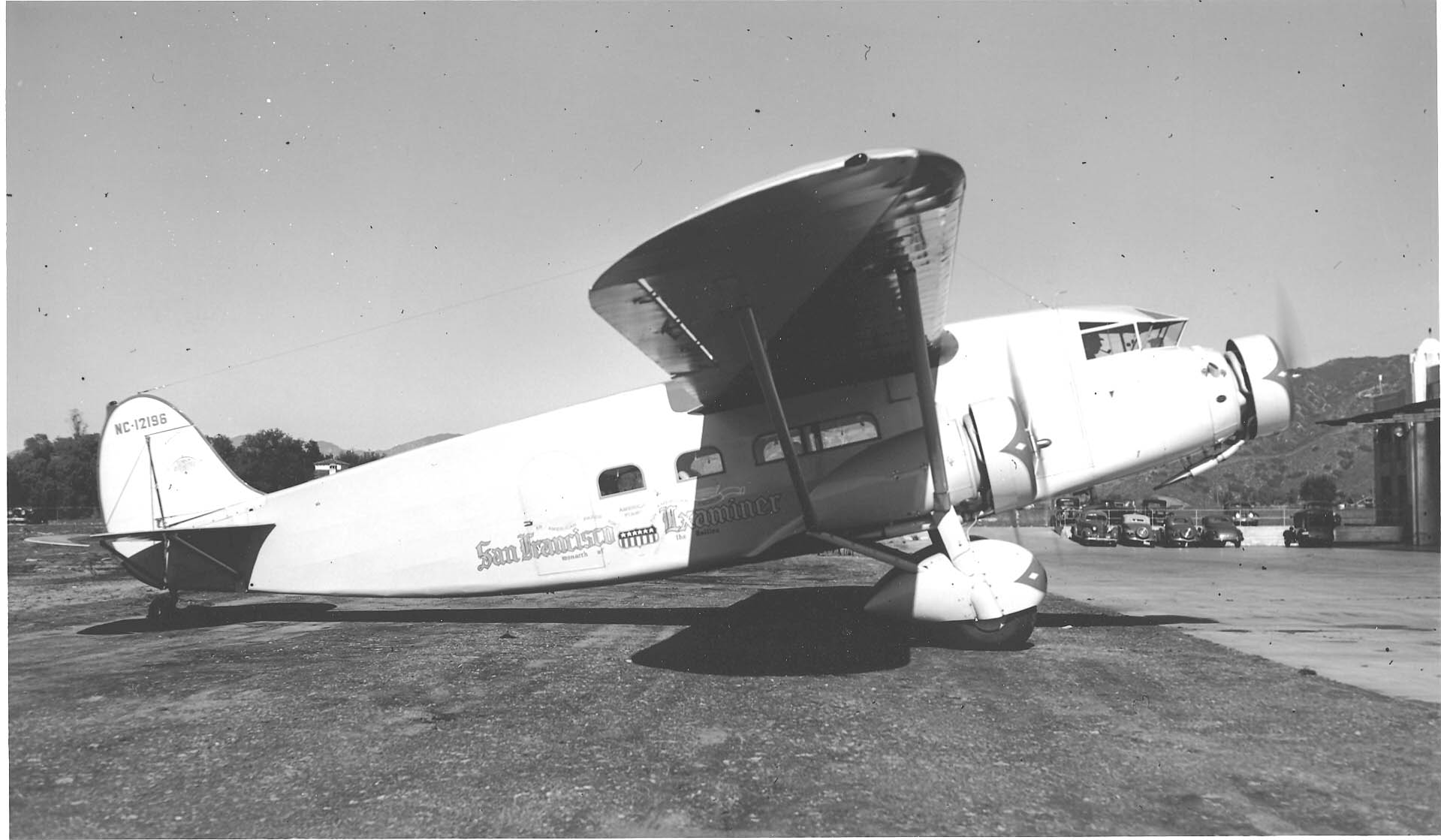 Stinson U owned by the San Francisco Examiner newspaper.